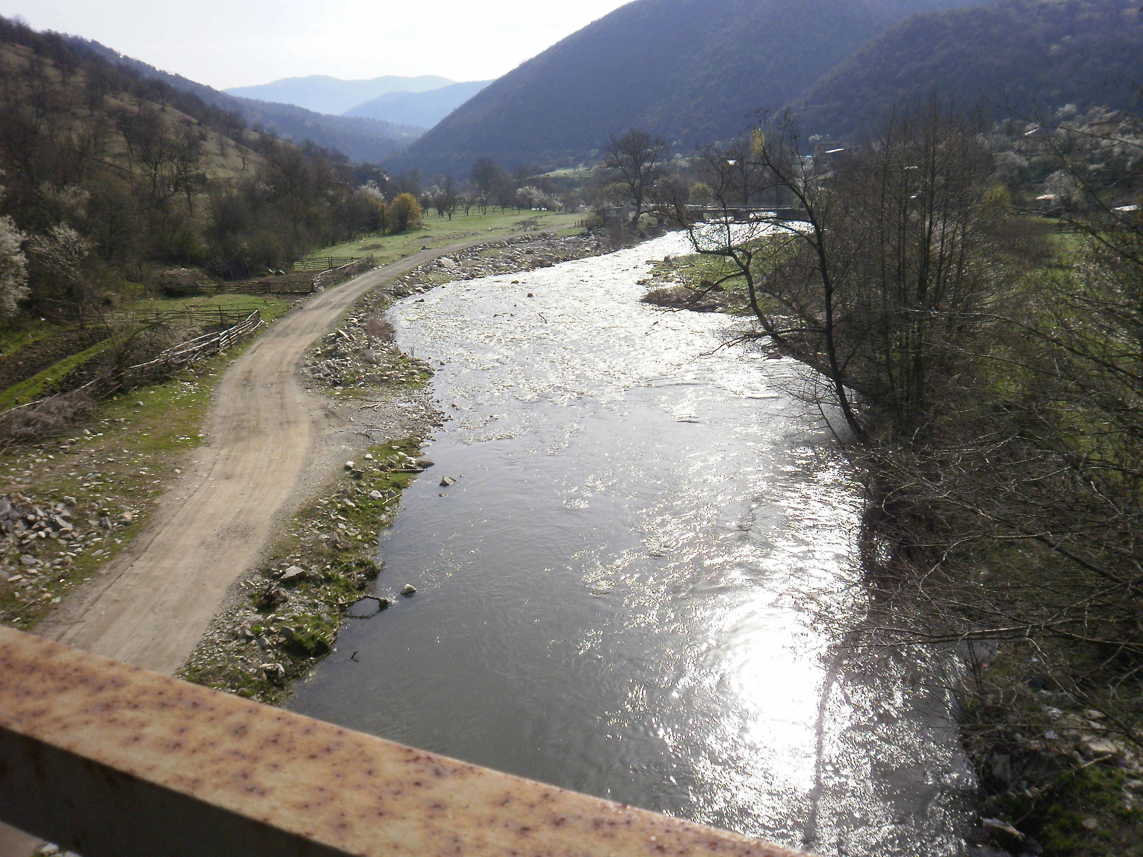 Chepinska River, Bulgaria